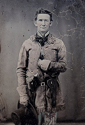 Half-plate ambrotype of John Salmon Ford, photographed while serving as a Texas Ranger, wearing a fringed buckskin coat, gauntlets and flap revolver holsters.